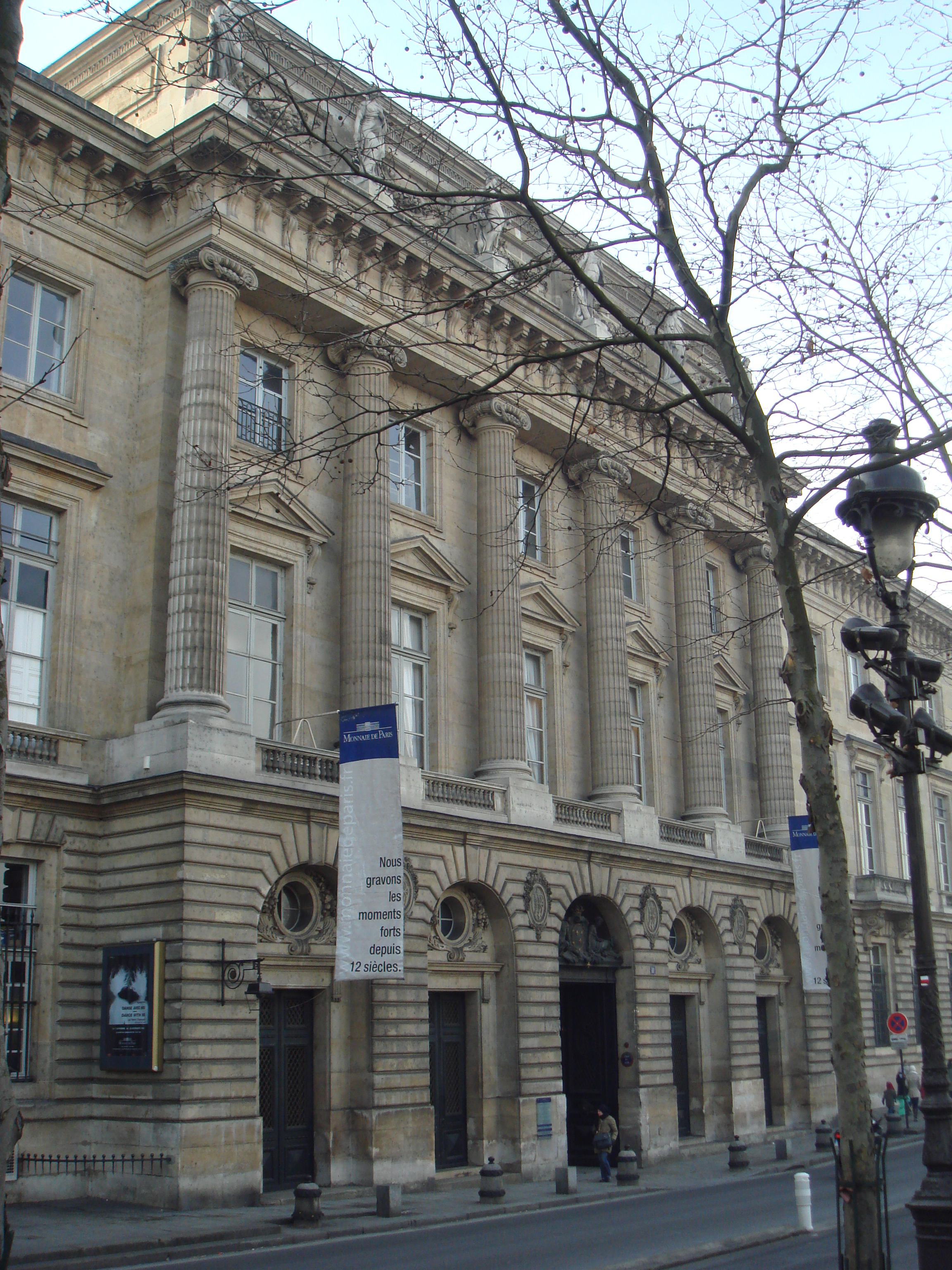 Monnaie_de_Paris, photographed by me in 2009